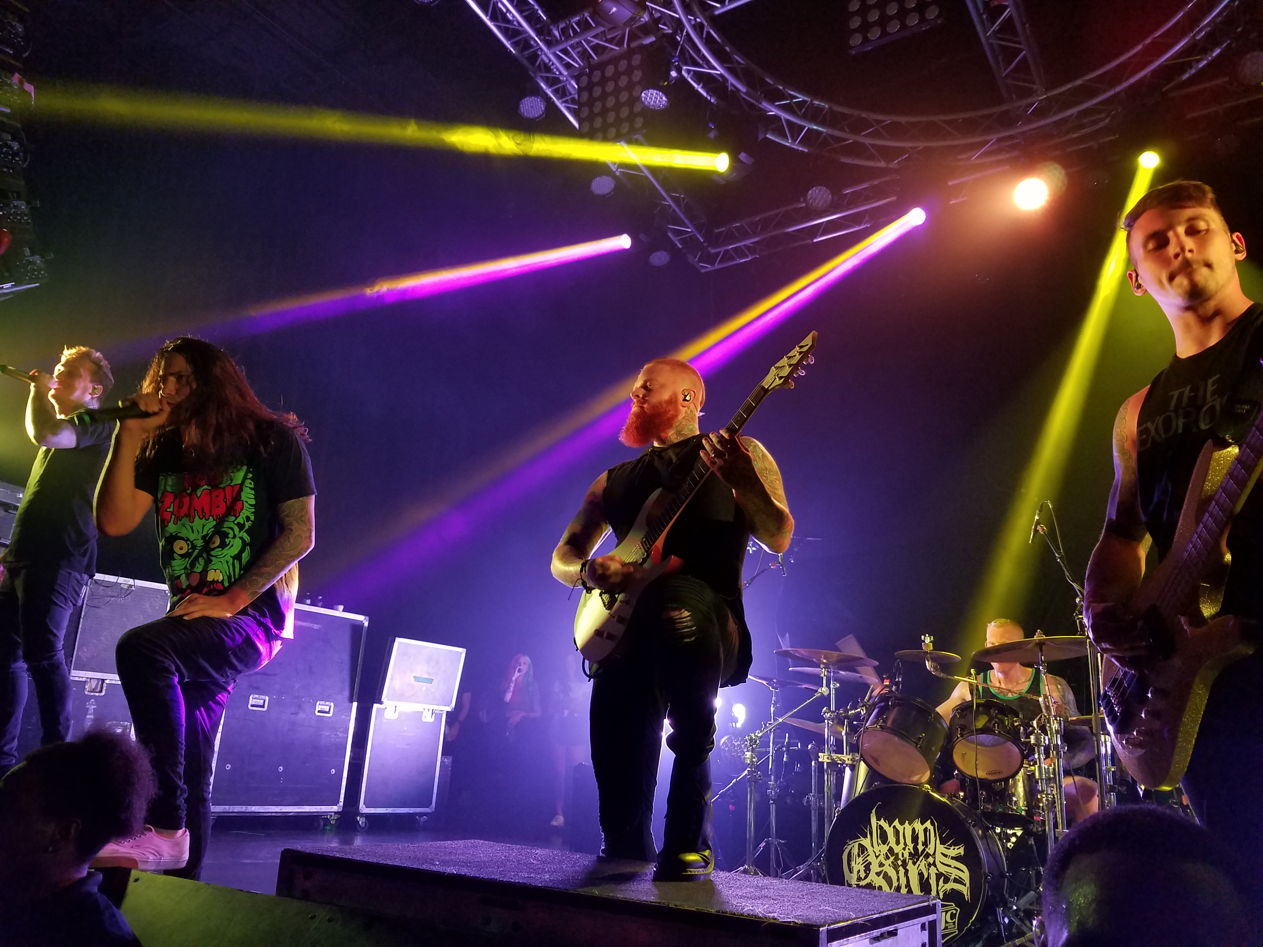 Born of Osiris performing in 2018